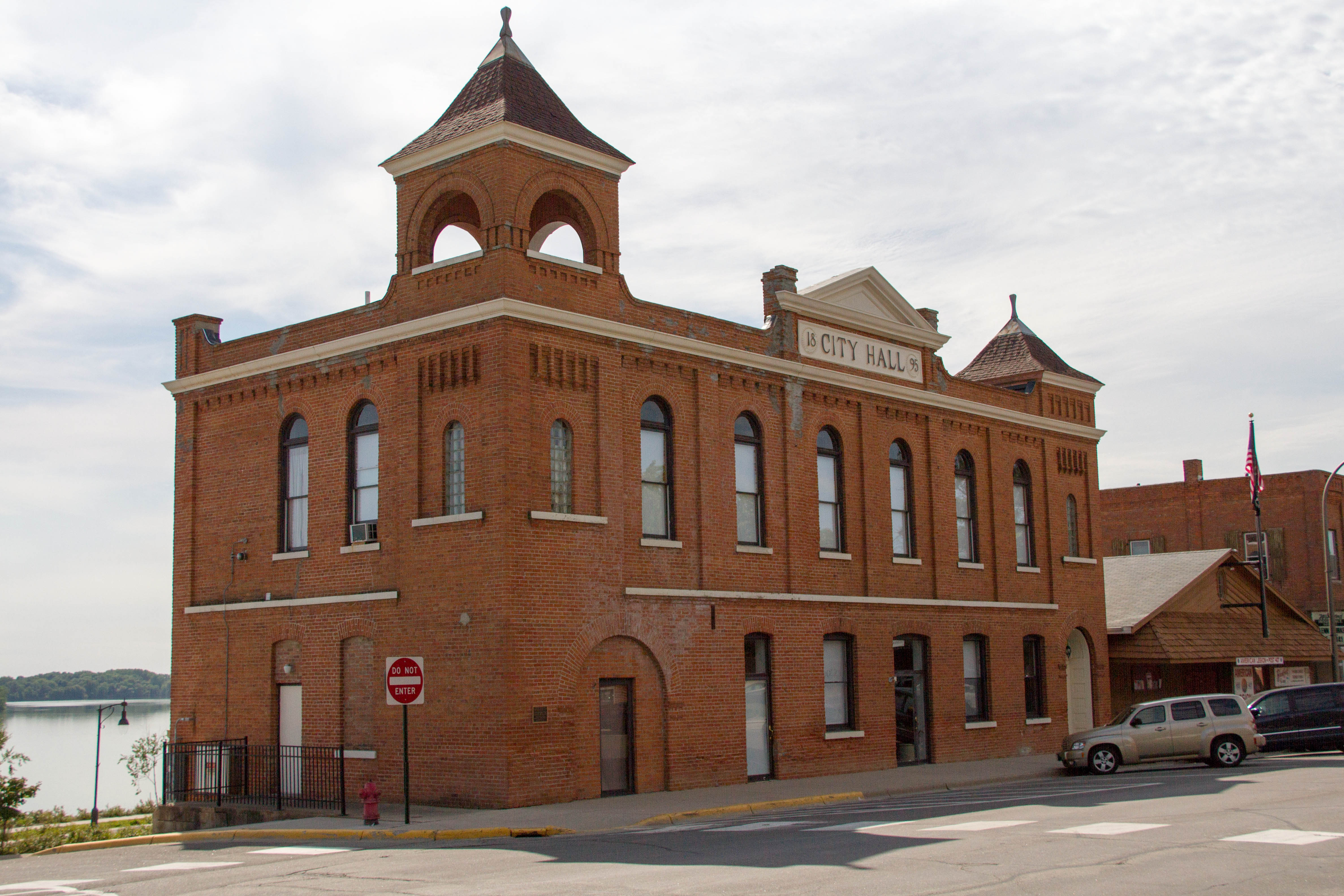 Winsted City Hall, Winsted, Minnesota, USA.